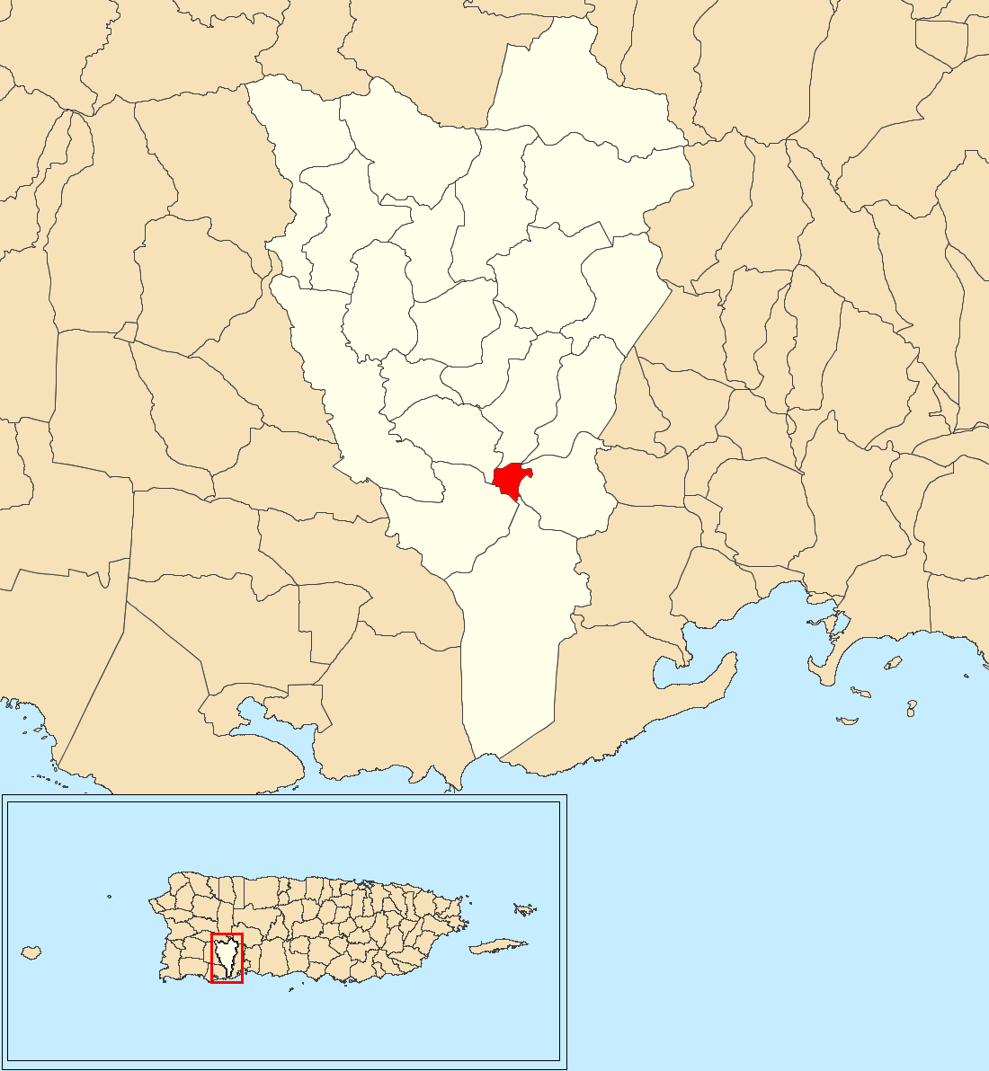 Yauco barrio-pueblo, Yauco, Puerto Rico locator map